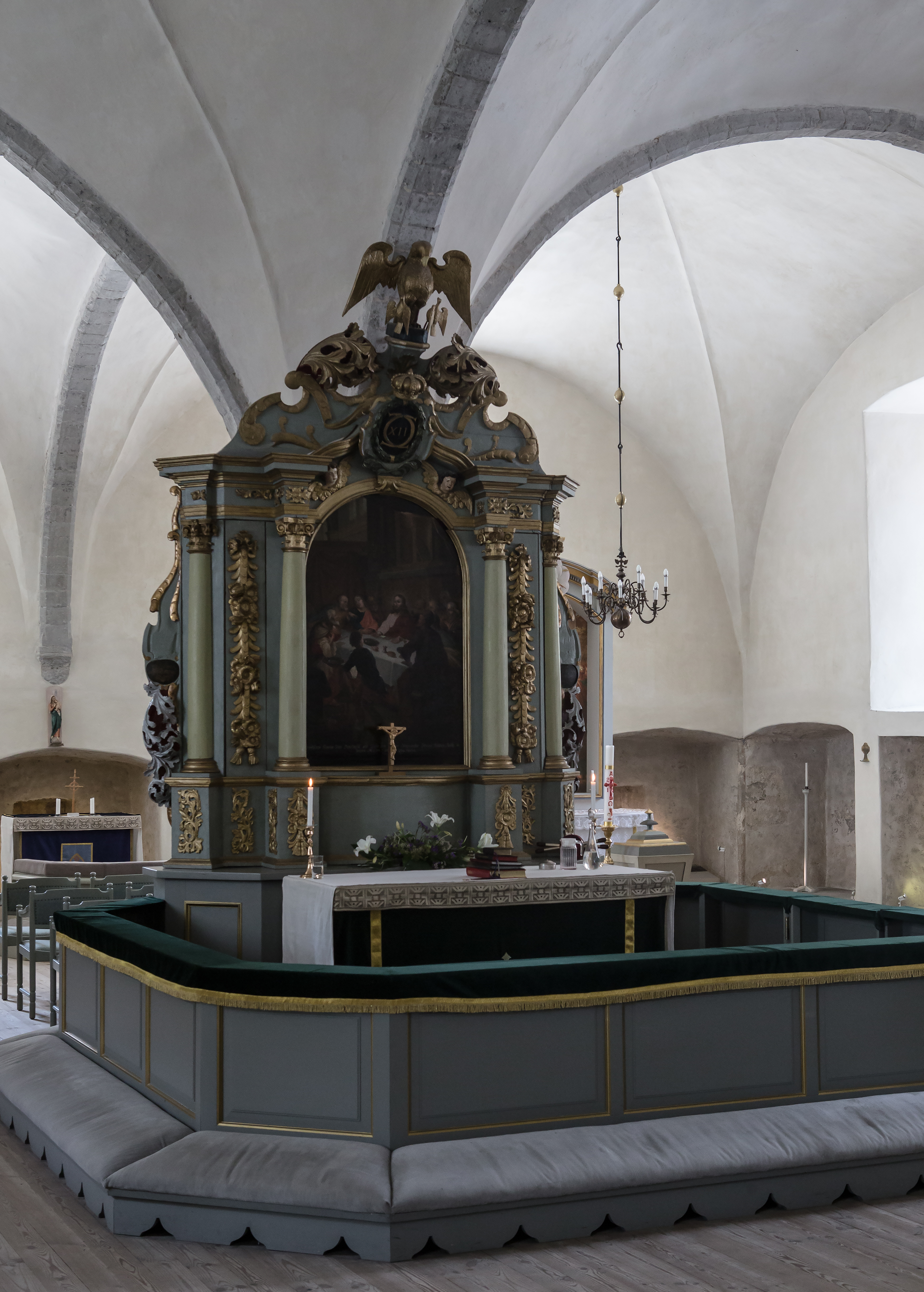 St. Michael's Swedish Church in Tallinn, Estonia.